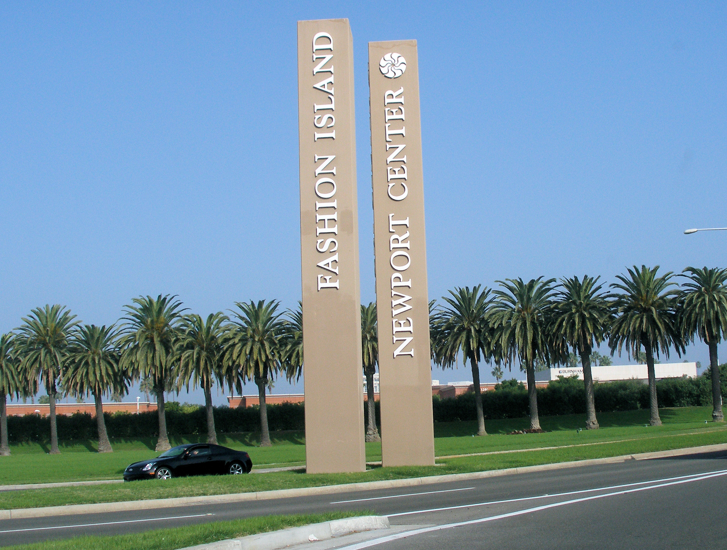 Entrance to the Newport Center/Fashion Island planned development in Newport Beach. Photographed by user Coolcaesar on November 3, 2007.